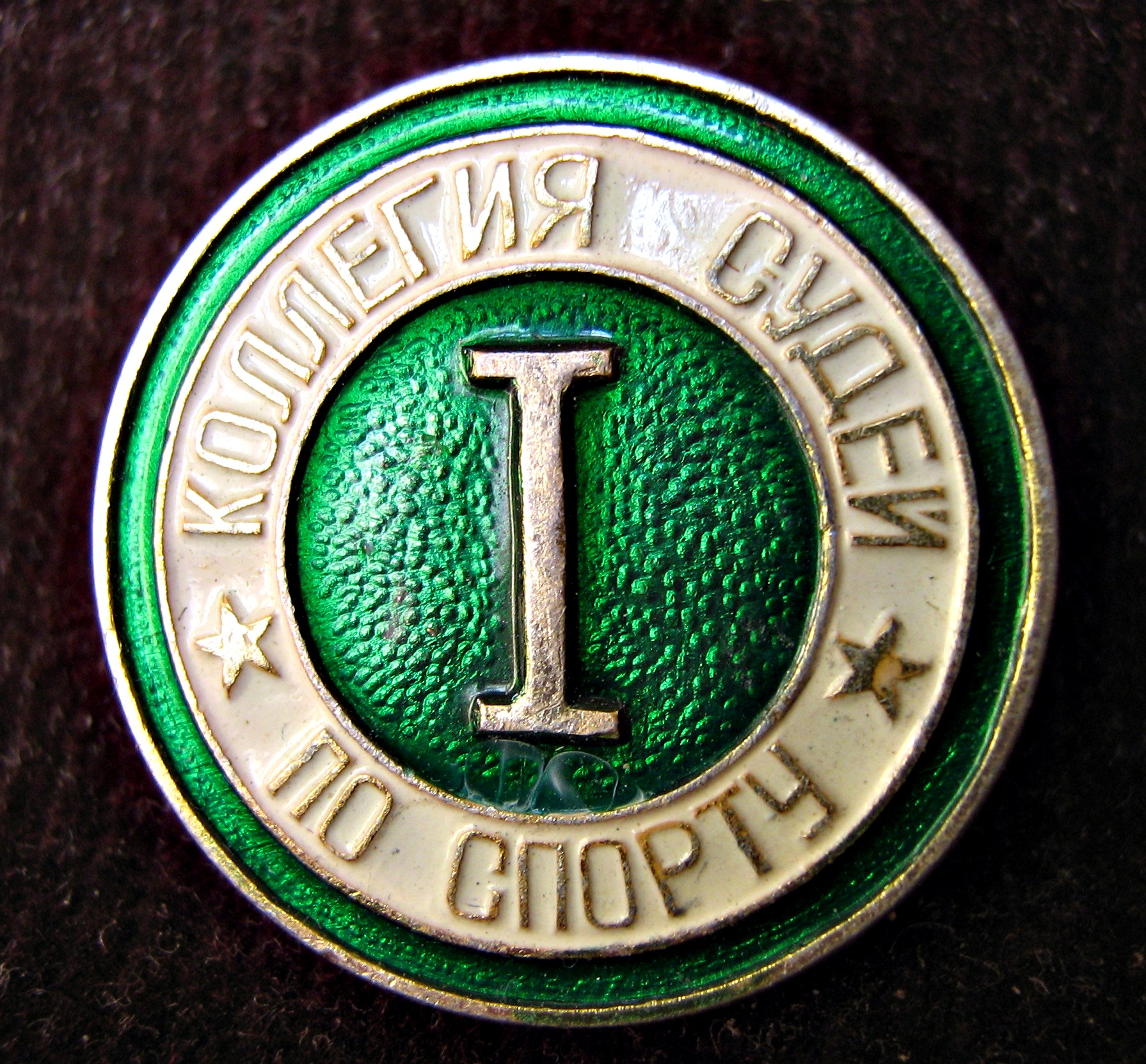 Referee. Soviet Union.